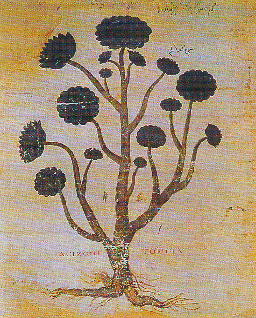 Aeizon to Mega (Aeonium arboreum) in Codex Vindobonensis